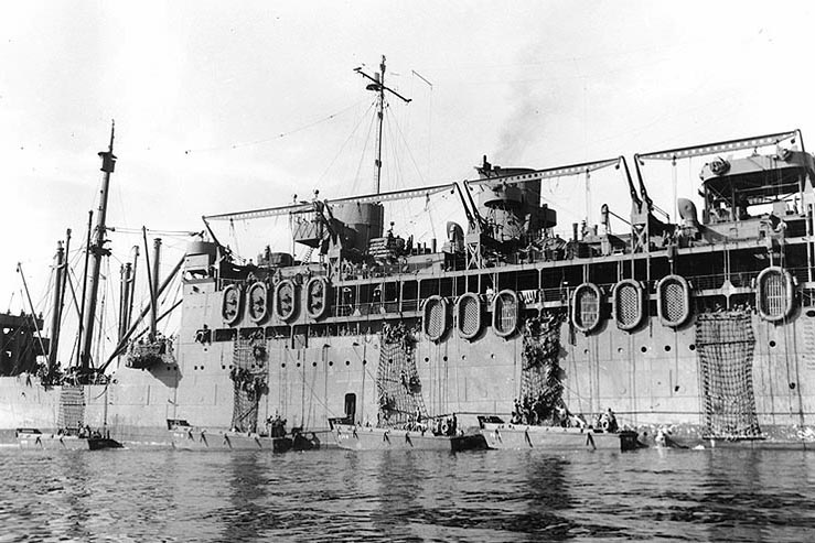 Photo of landing rehearsals in June 1943 by USS McCawley (APA-4), #80-G-254933.